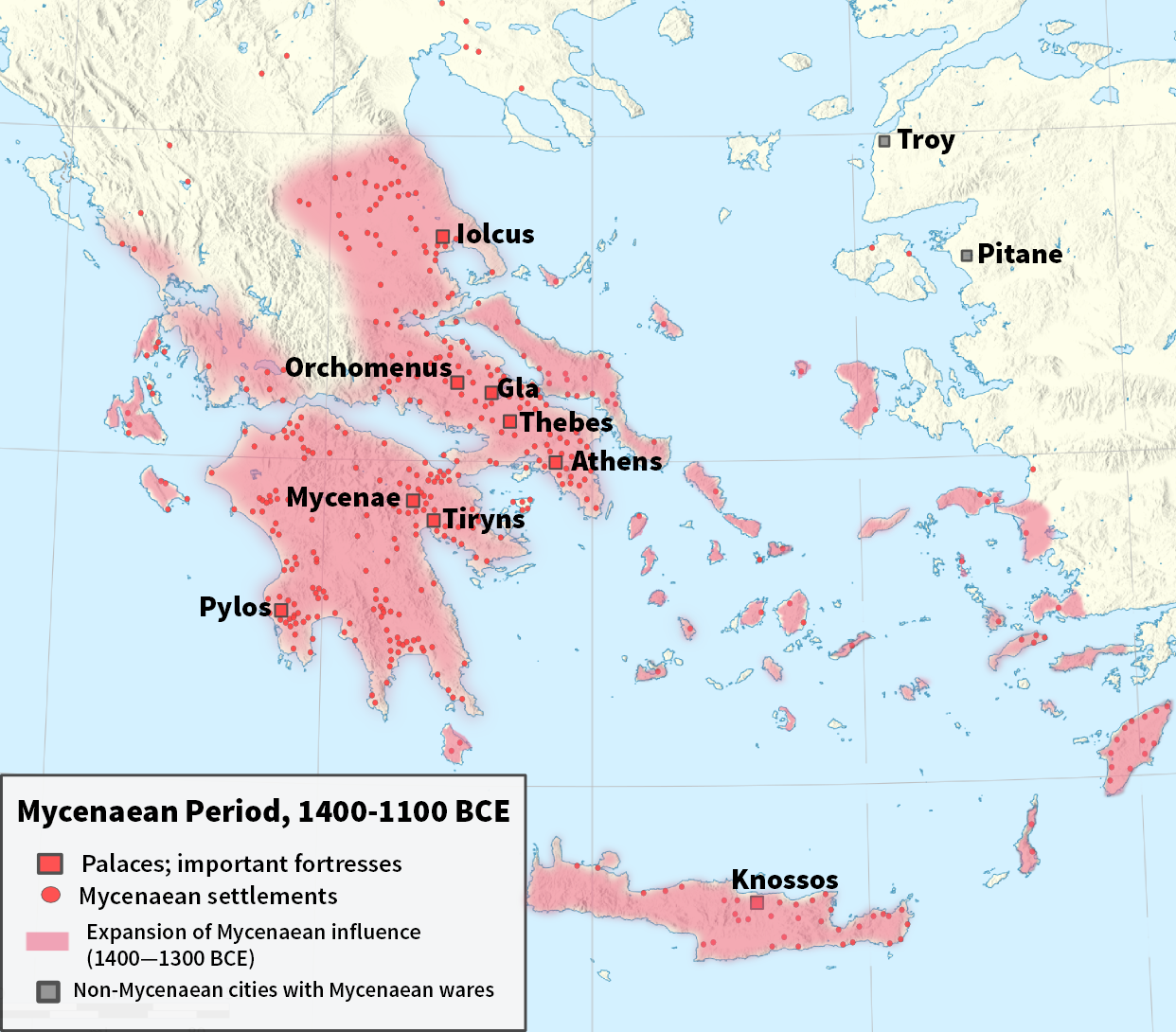 Map of Mycenaean Greece 1400-1200 BC: Palaces, main cities and other settlements.